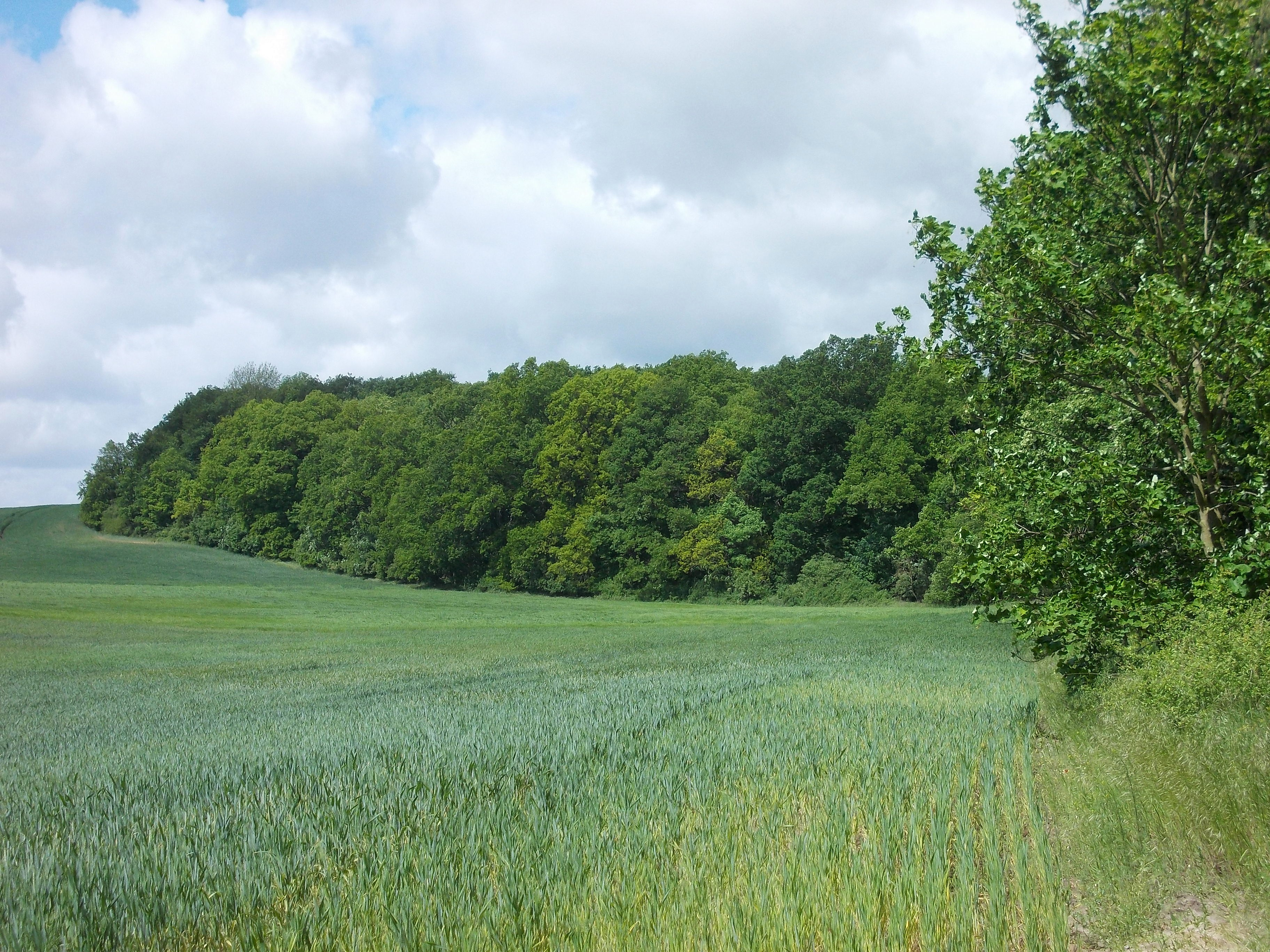 Lindbusch (or Lintbusch), a nature reserve on the western edge of Dölau Heath near the village of Bennstedt (Salzatal, district: Saalekreis, Saxony-Anhalt)